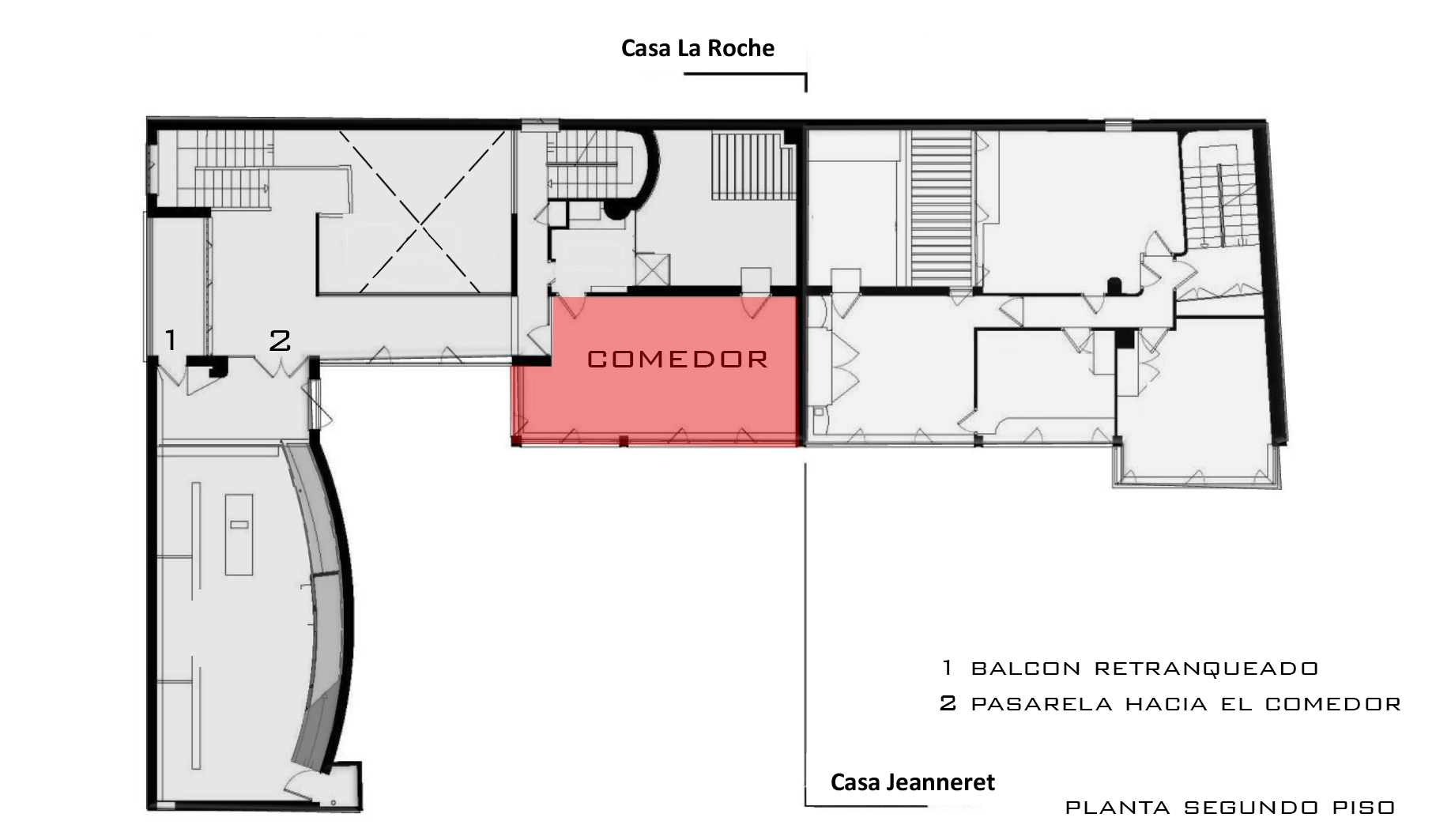 Planta Comedor